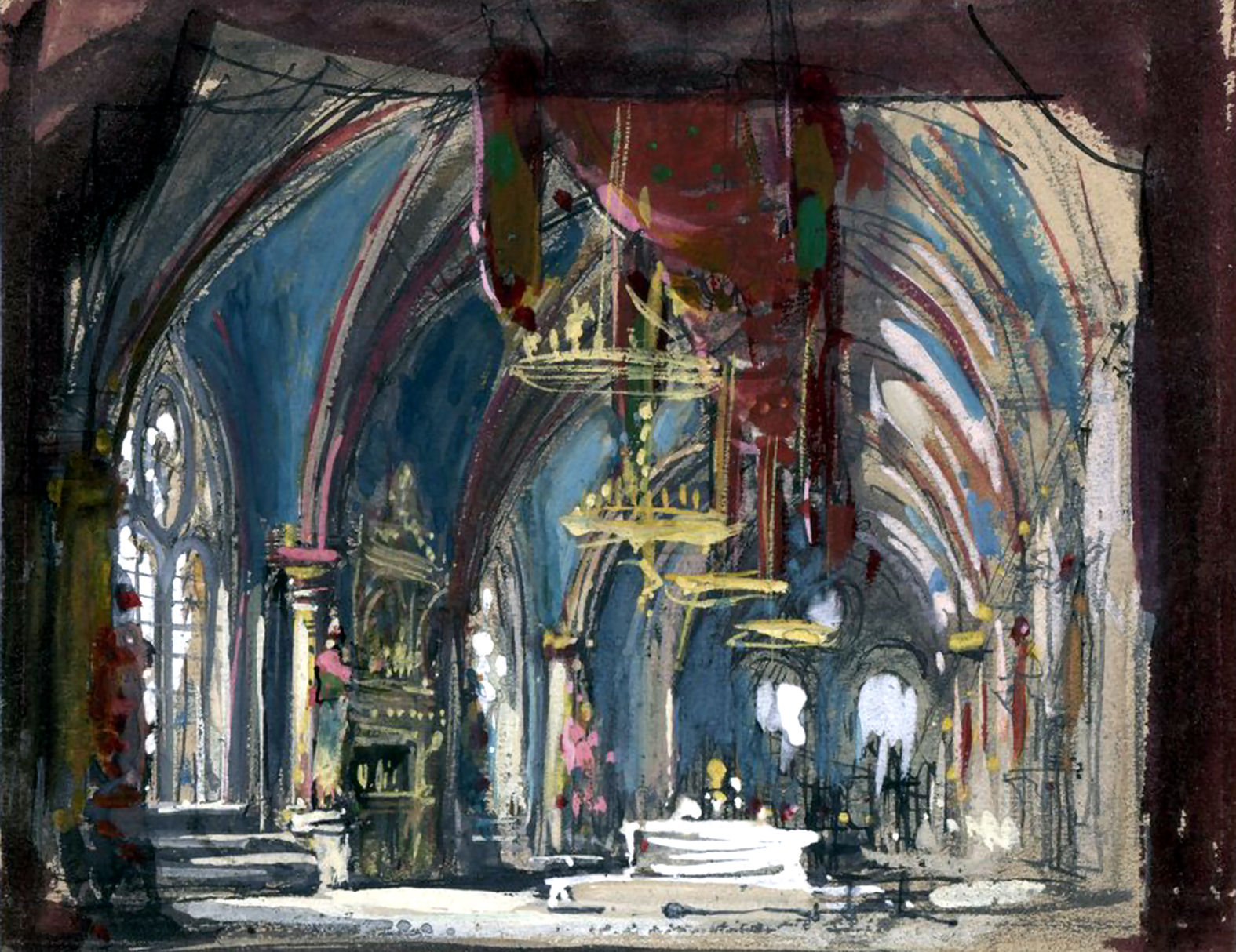 Le Prophète : sketch of the opera set for the second scene of the fifth act (1876) by Philippe Chaperon (1823-1906)